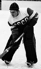 CCCP - Soviet Union vs. Canada in the 1954 World Ice Hockey Championships in Stockholm, Sweden. Soviet Union sensationally defeated Canada 7-2 in the final and won the gold in its first championship ever.